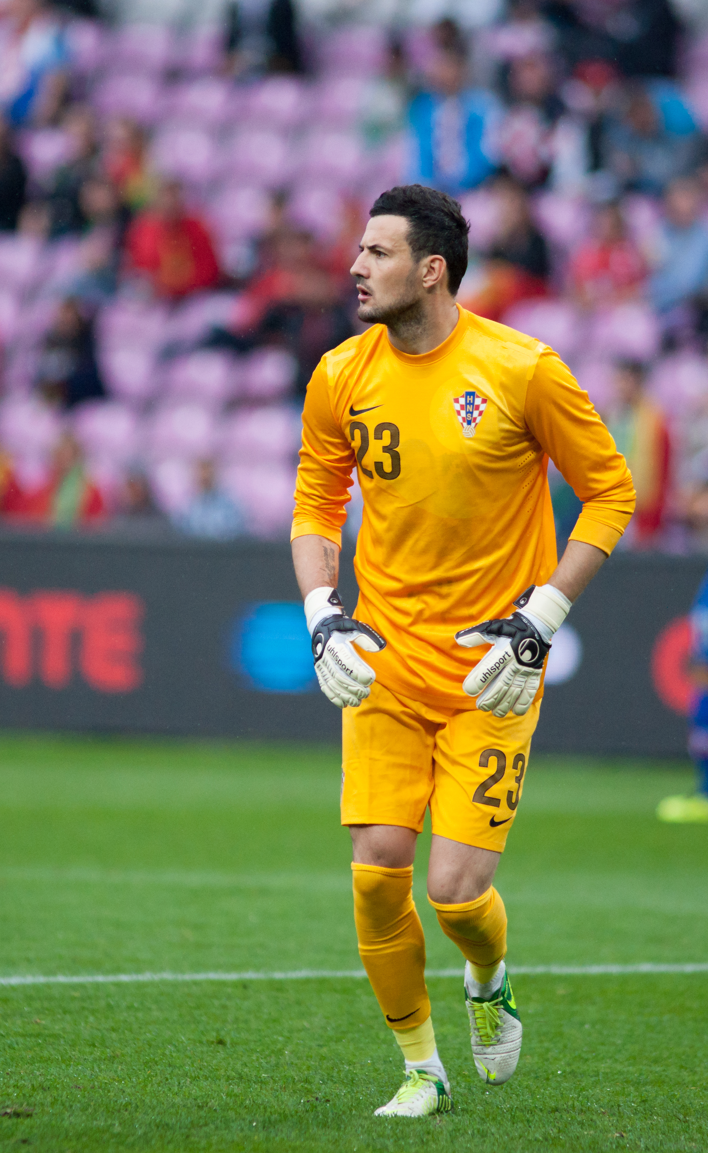 Croatia vs. Portugal, 10th June 2013